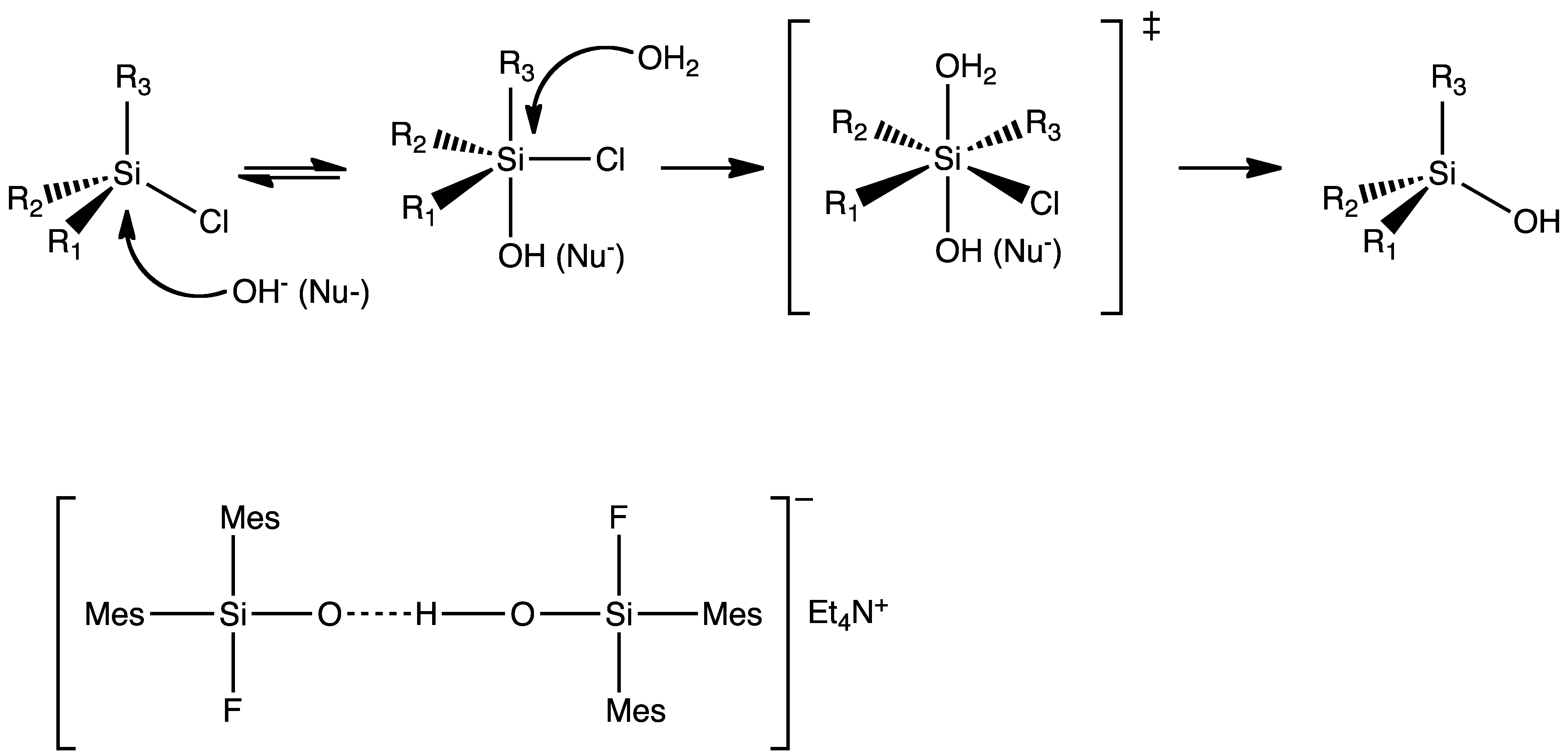 Hydrolysis of silanes and X-ray structure of tetraethyl ammonium salt